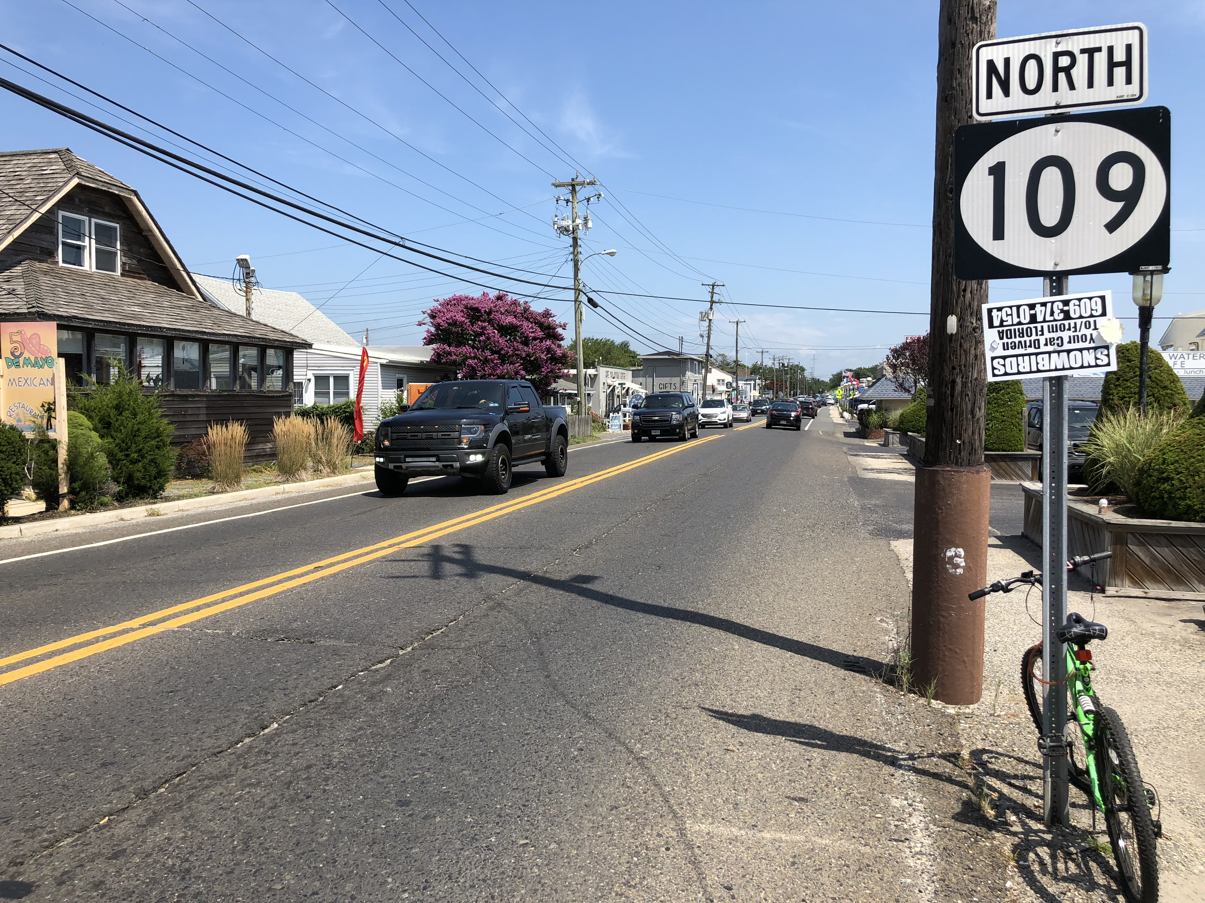 View north along New Jersey State Route 109 at Wilson Drive in Lower Township, Cape May County, New Jersey